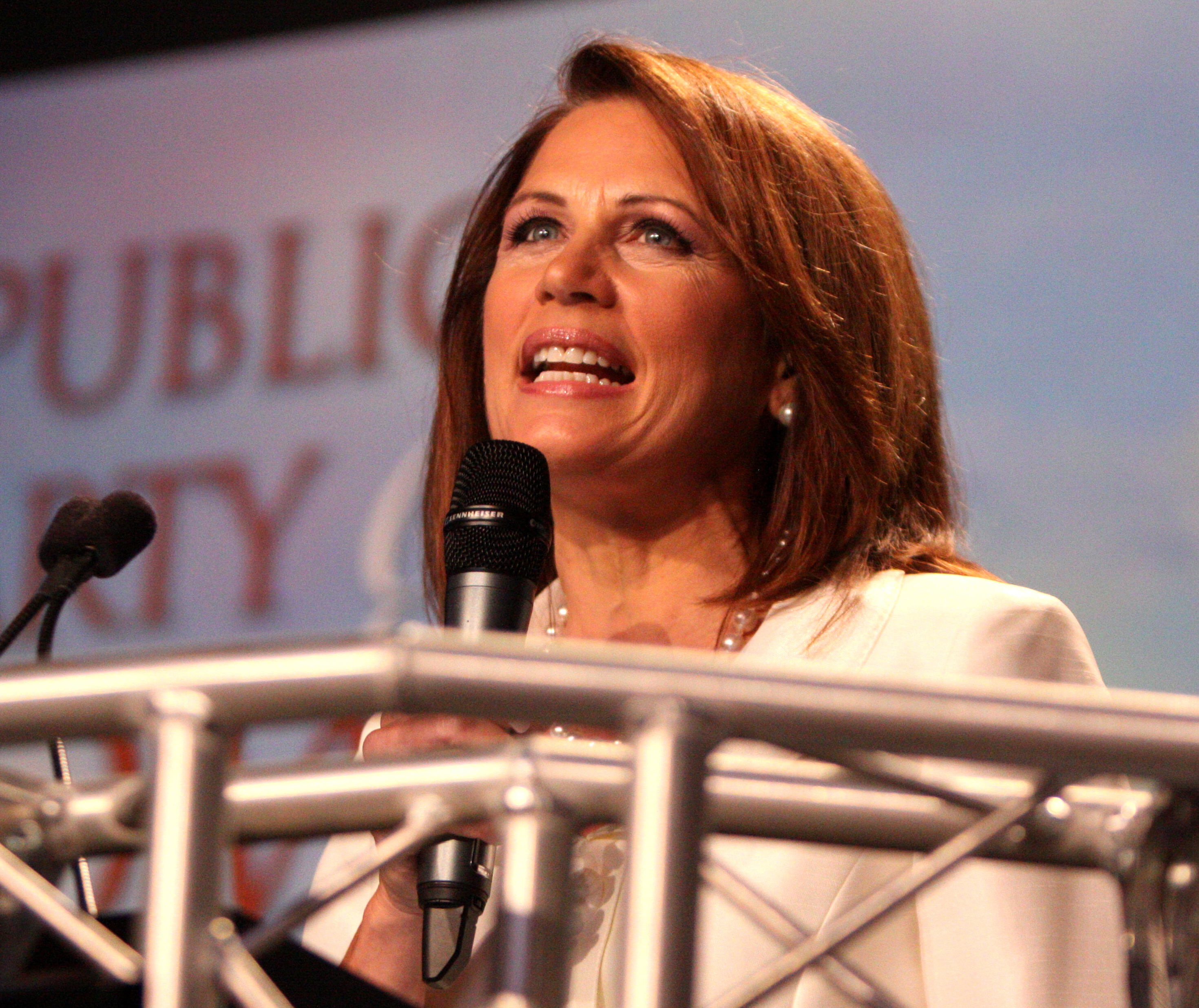 Michele Bachmann at the Ames Straw Poll in Ames, Iowa.